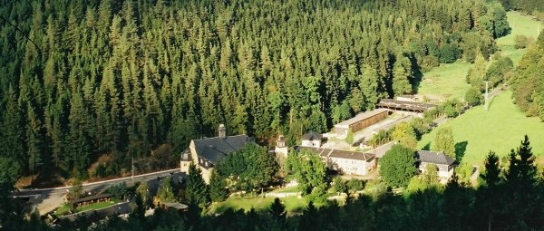 Zschachenmühle in Thuringia, Germany, general view